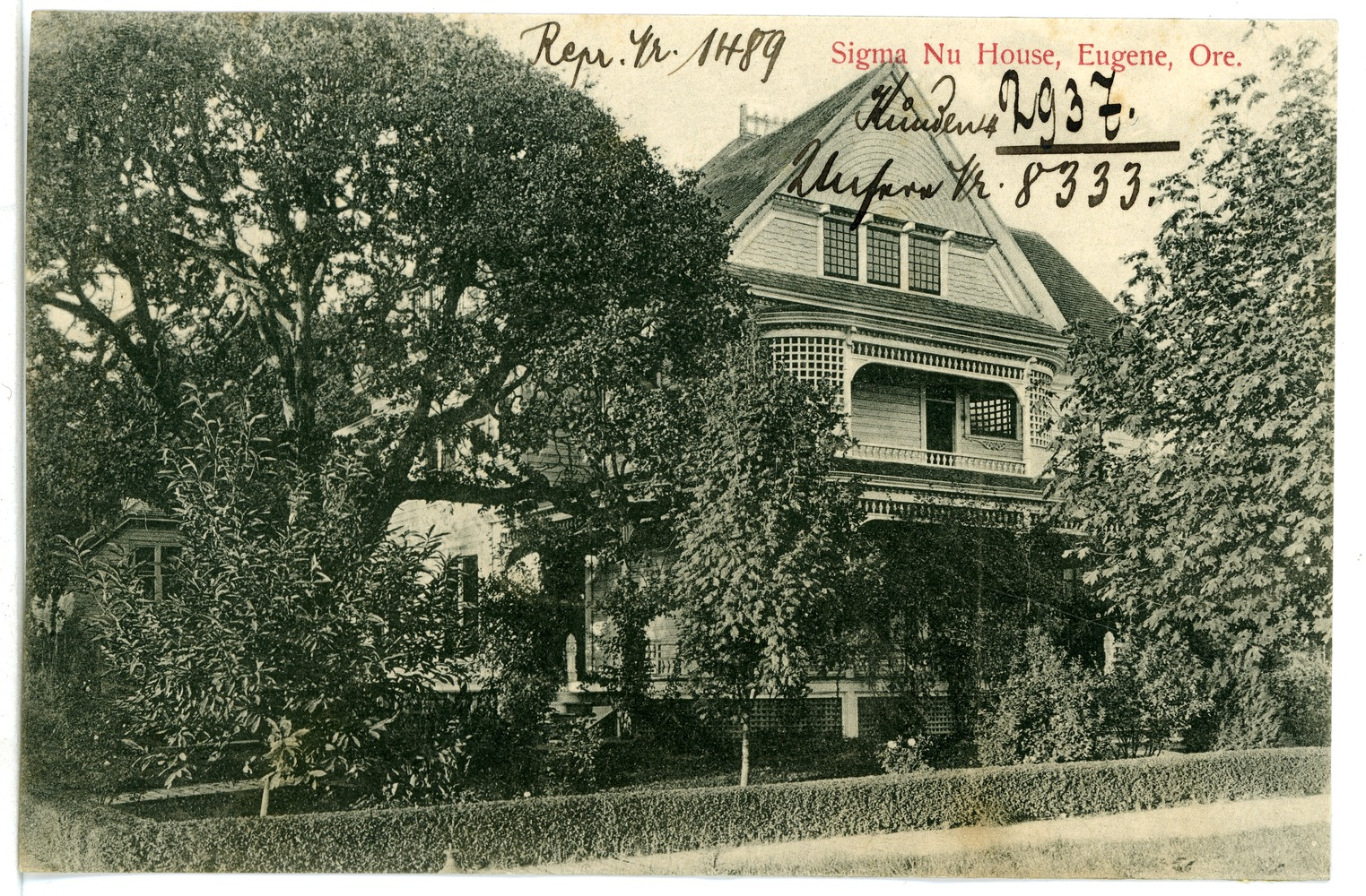 This postcard is from publisher Brück & Sohn in Meißen ( This postcard has a unique number 08333 and is available in a higher resolution at the publisher. This images was uploaded in a cooperation project between Wikipedians and the publisher.